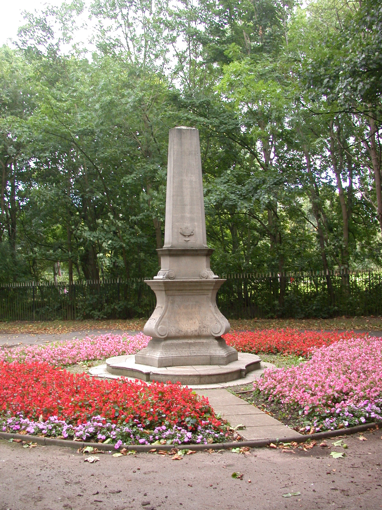 The scout memorial in Cannon Hill Park, Birmingham, England.